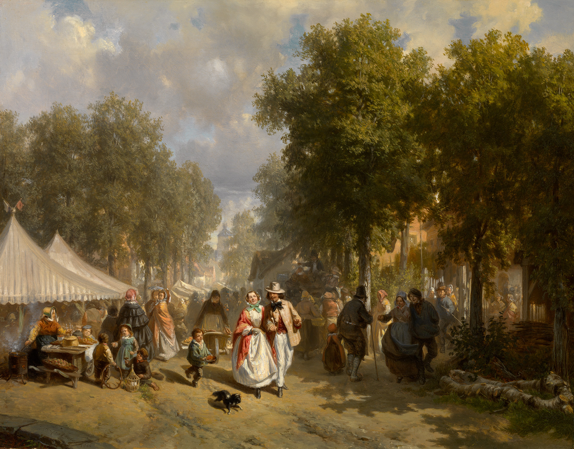 The Funfair